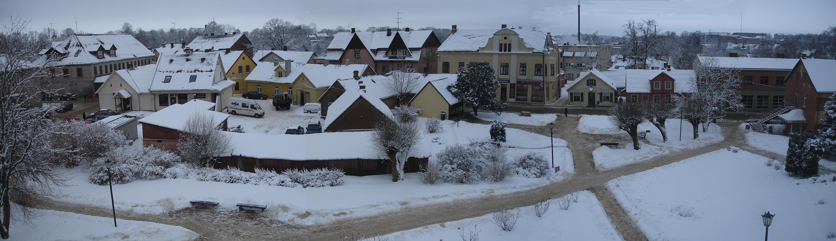 Saldus panorama.